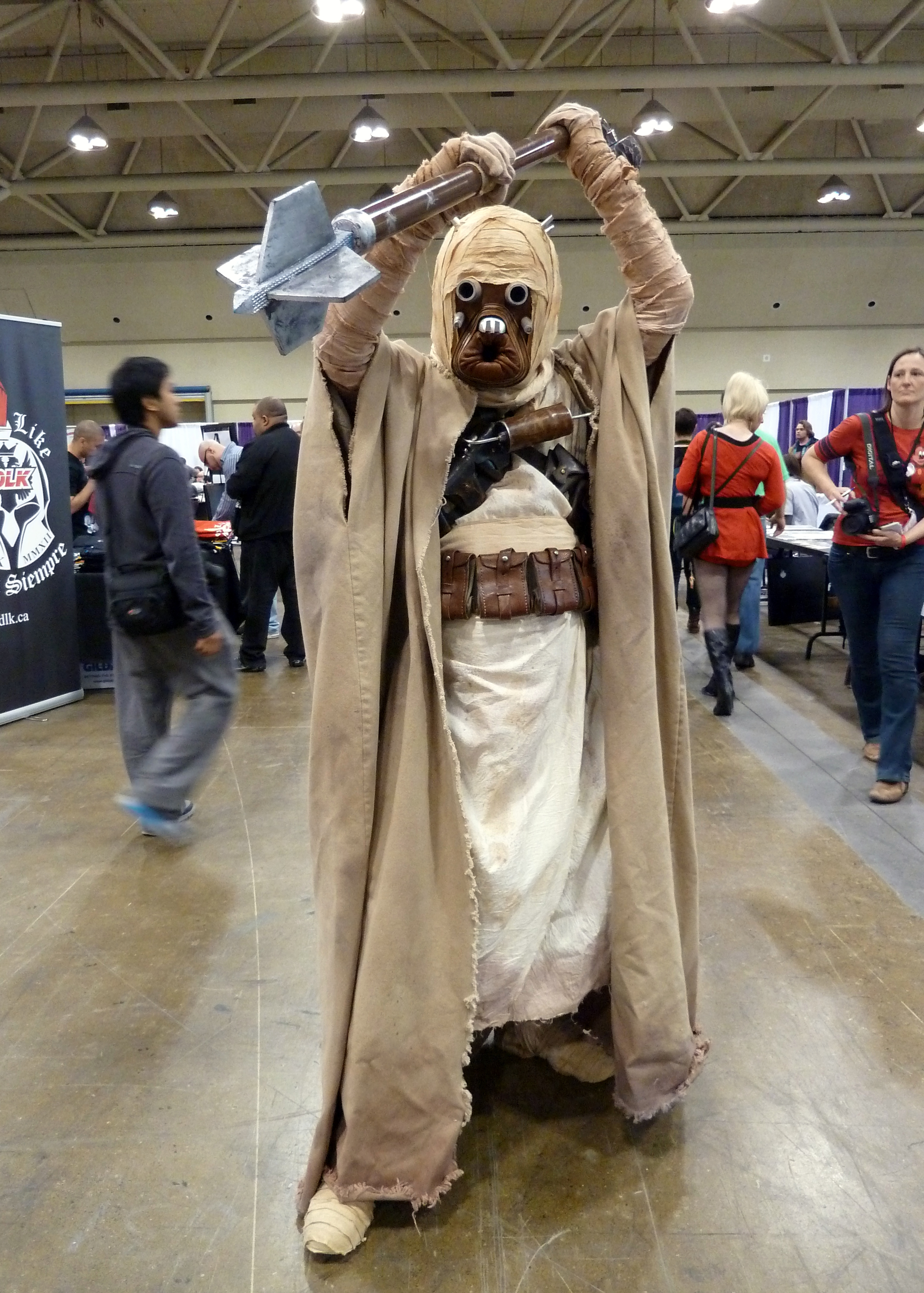 Cosplay at Wizard World Toronto 2012.